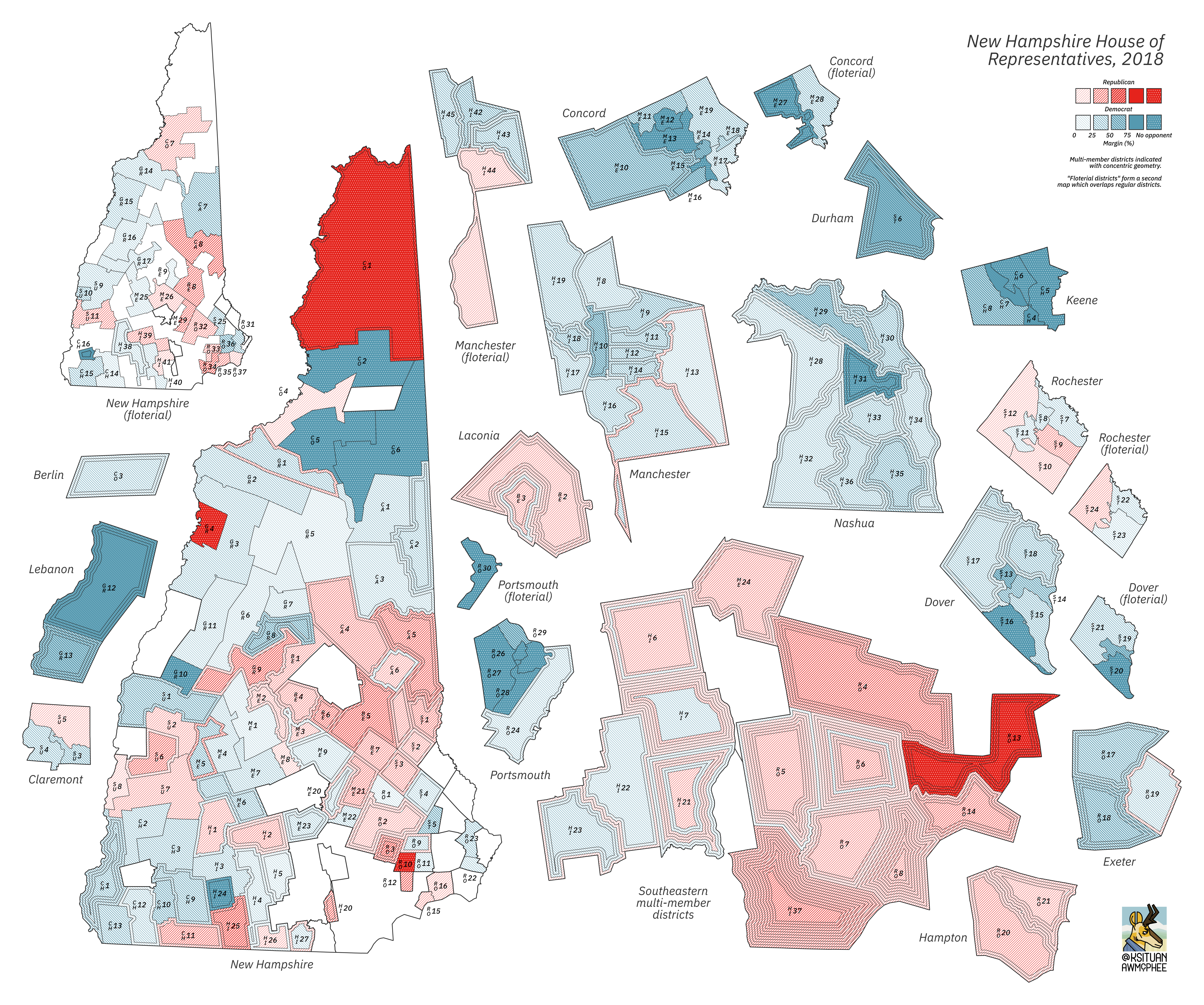 A series of state legislative election maps, created from open data during the summer of 2020. Their common visual style is designed to accomodate all of the unique features of American democracy. They were created using QGIS and Inkscape, two free programs. Please use freely and contact the author with any inquiries about visualizing election data with open-source tools.